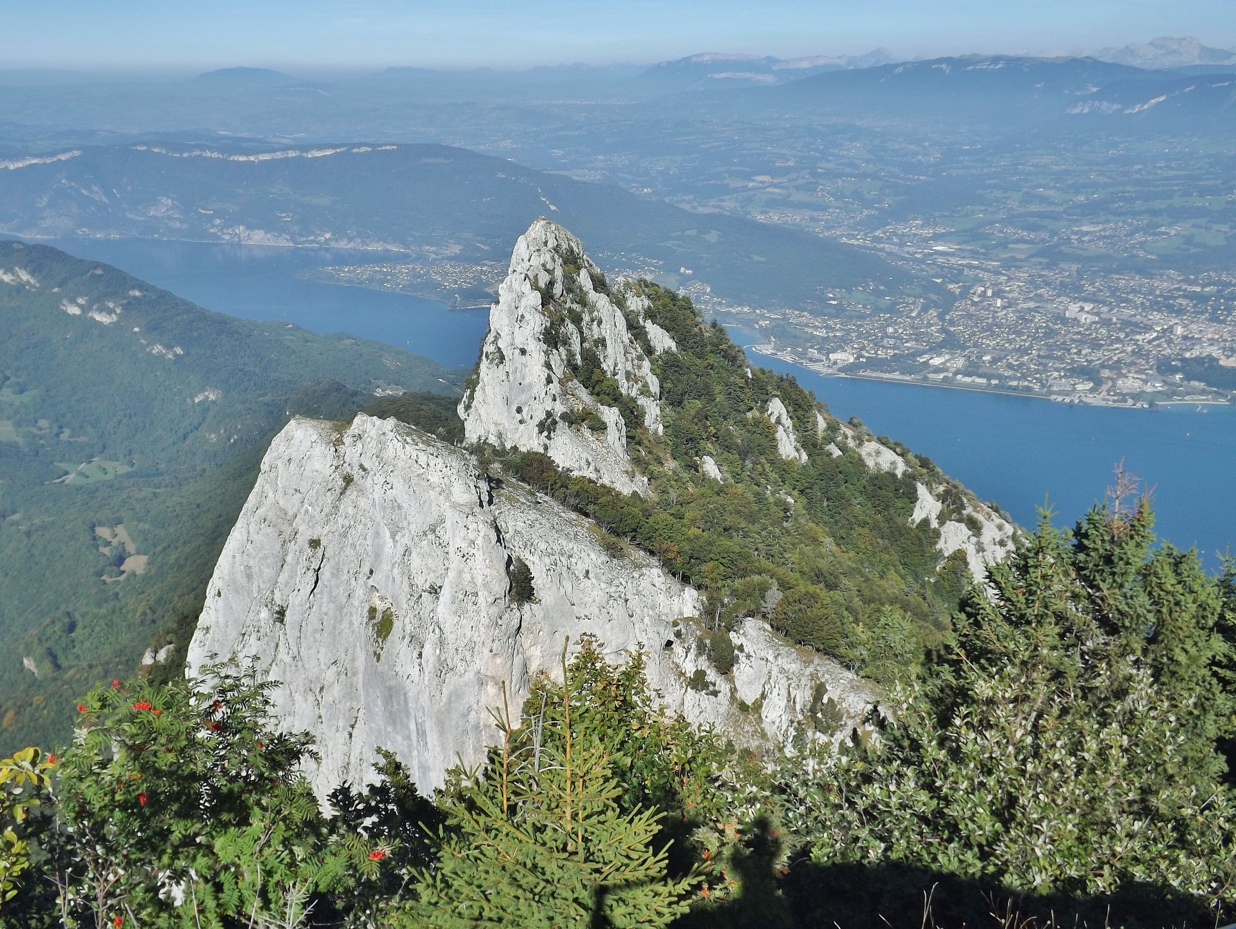 Sight of the dent du Chat (cat's tooth) mountain (1 390 meters high), from the Molard Noir mountain (1 452 m), with the lac du Bourget lake and Aix-les-Bains at the background (Savoie, France).